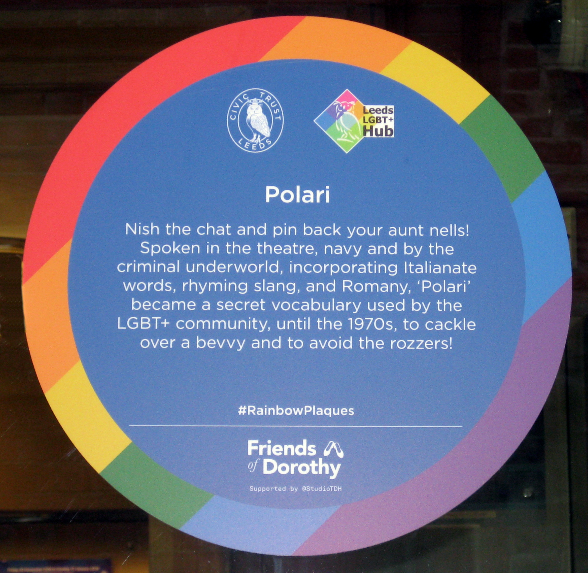 Rainbow plaque number 15, on the window of the main entrance to the City Varieties Theatre. Swan Street, Leeds. Celebrating the language Polari